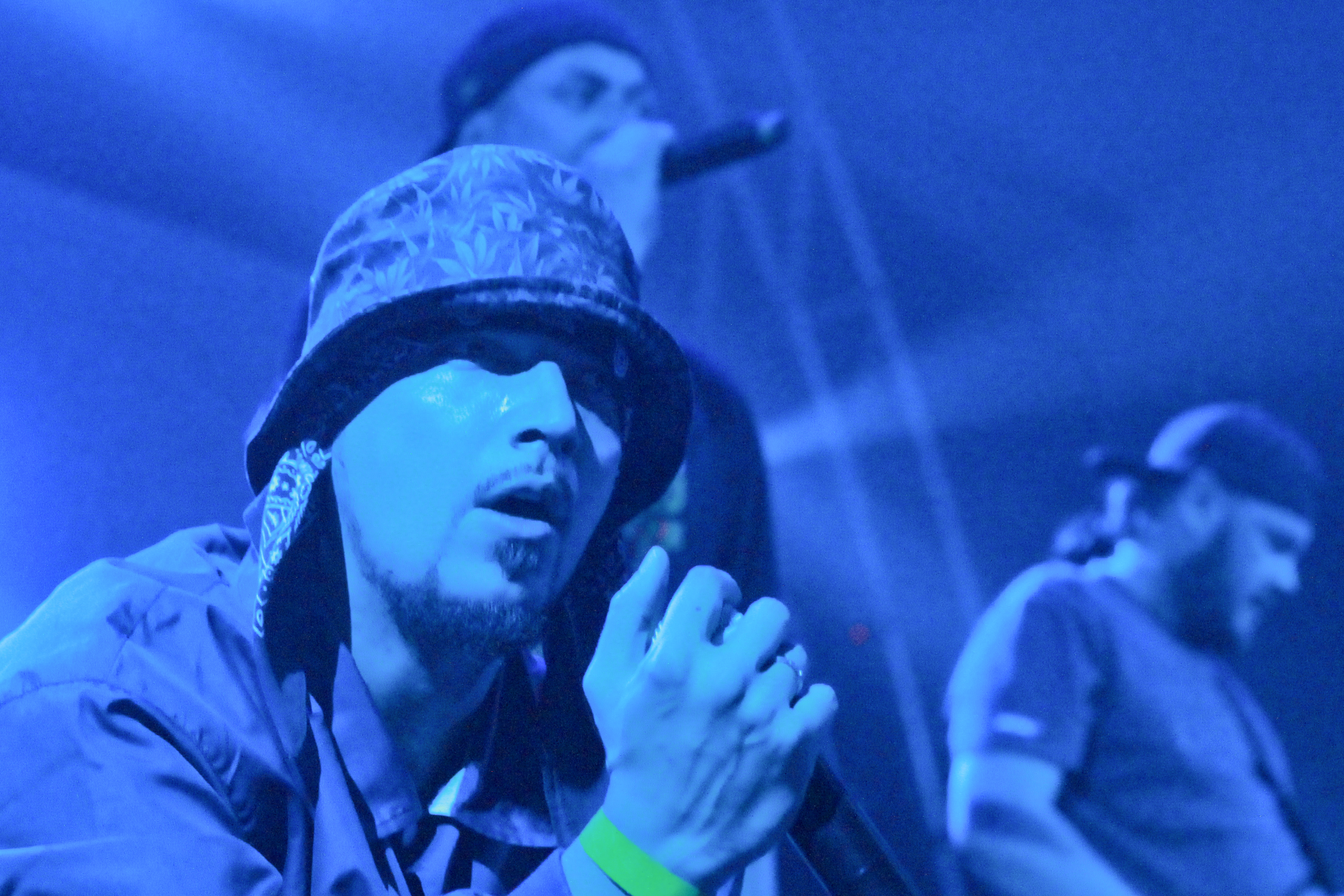 Przystanek Woodstock in 2015.